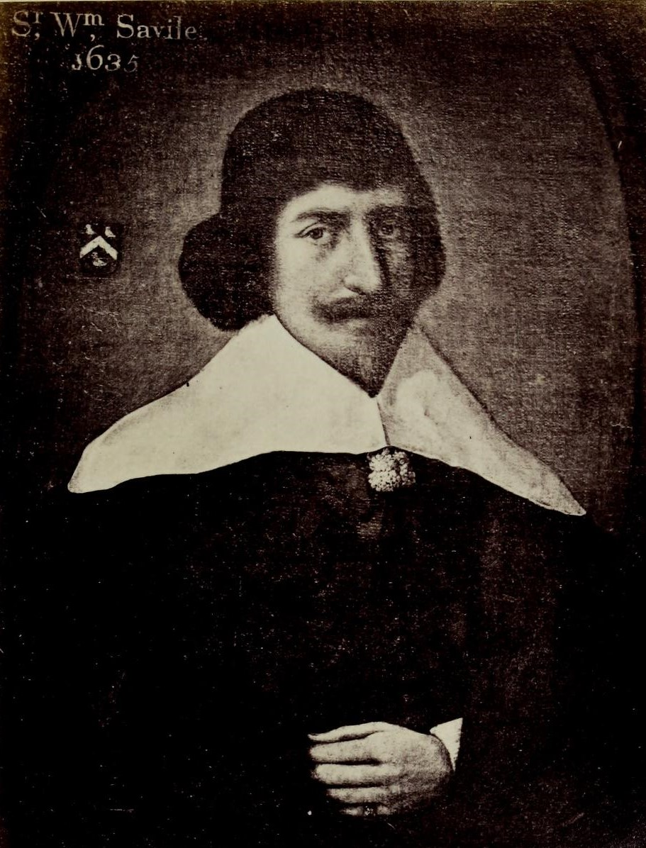 Bust of Sir William Savile